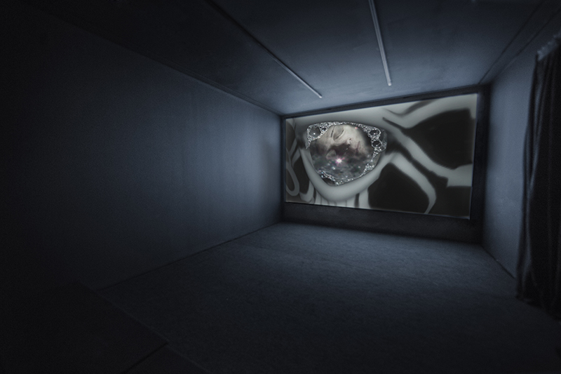 Miranda - Light Between the Islands by Grimanesa Amoros